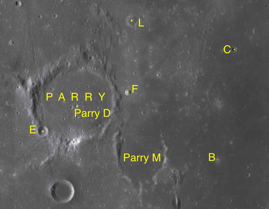 Part of the chart LAC-76 used for the presentation